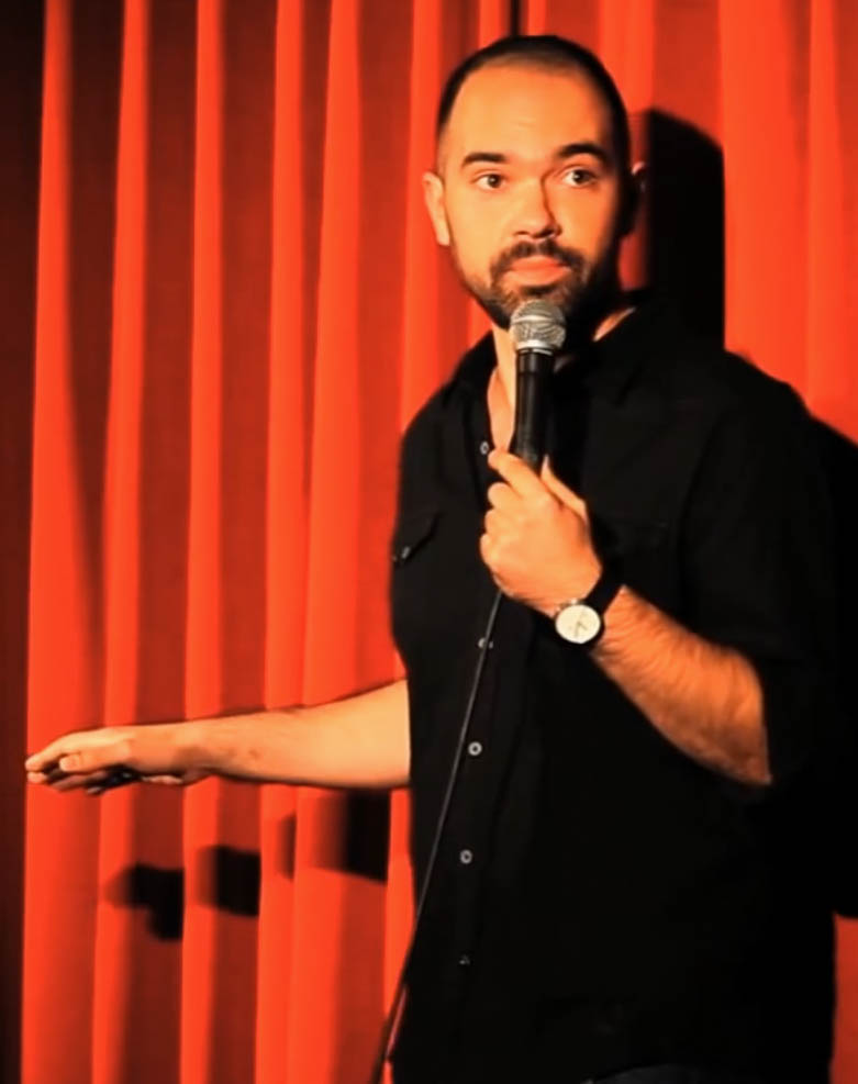 Romanian comedian Claudiu Teohari on stage. Taken in Bucharest, March 24, 2013. Romanian comedian Claudiu Teohari on stage. Taken in Bucharest, March 24, 2013.